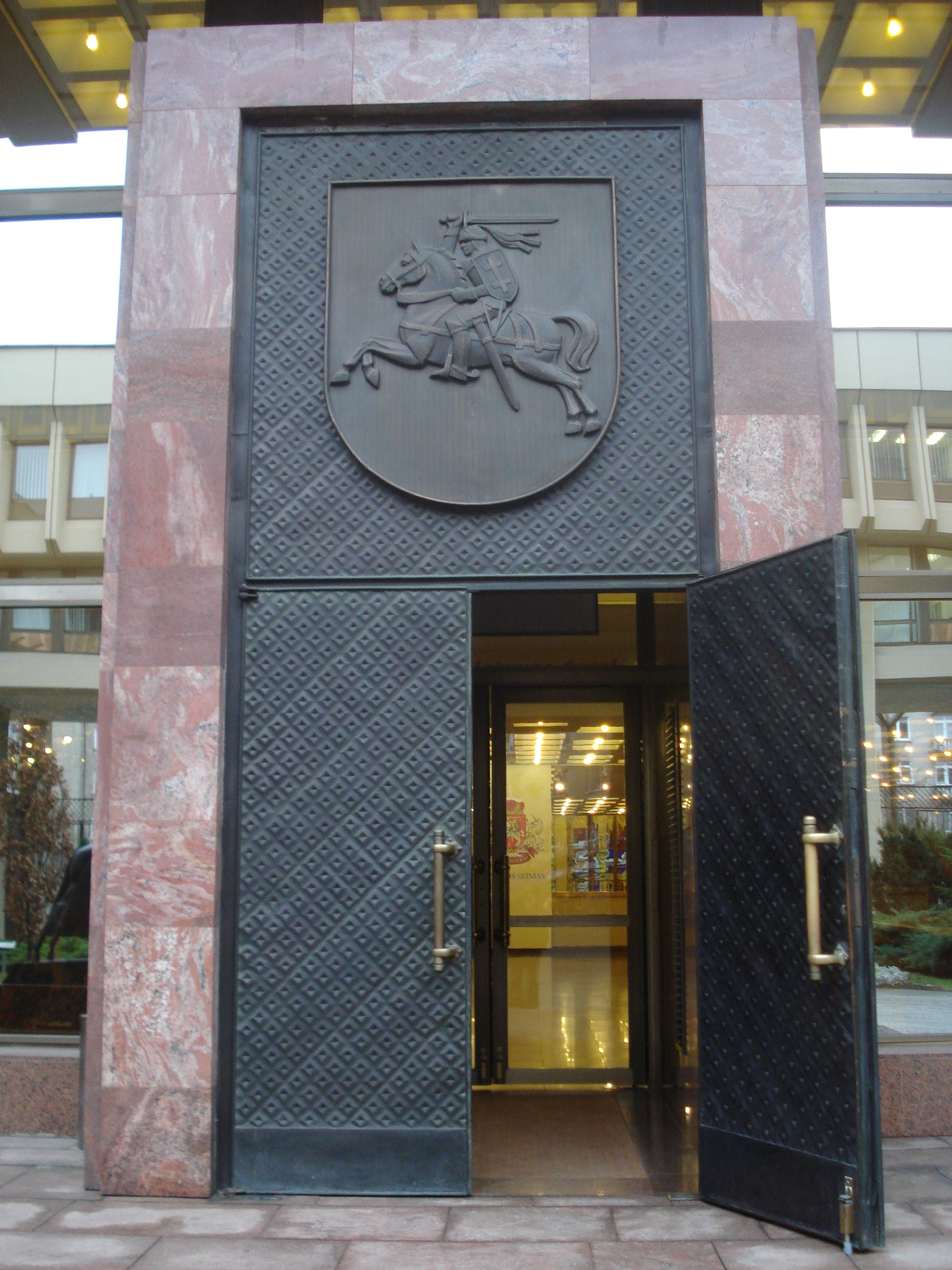 Main door of the Seimas